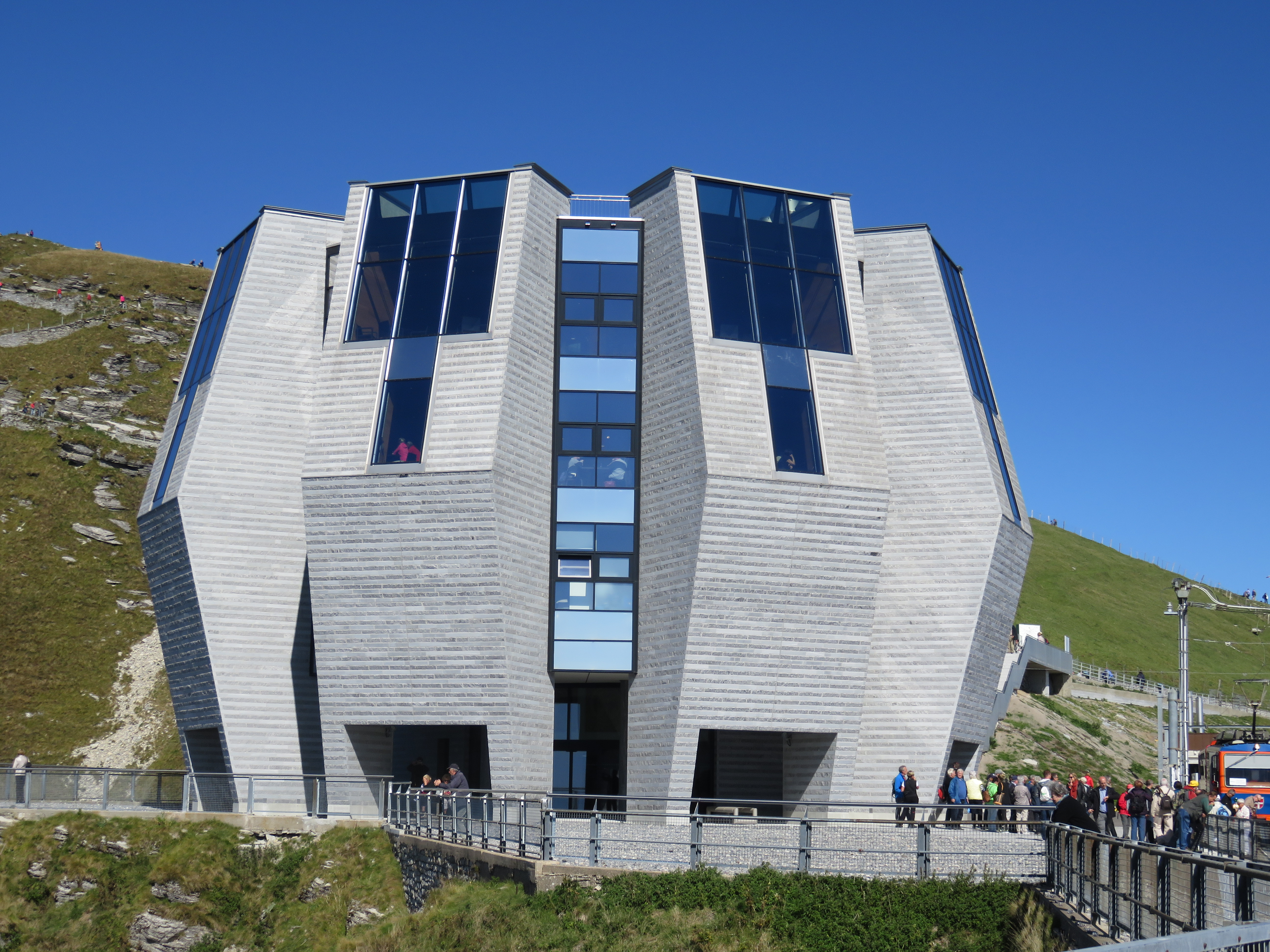 New Restaurant on Monte Generoso designed by the architect Mario Botta